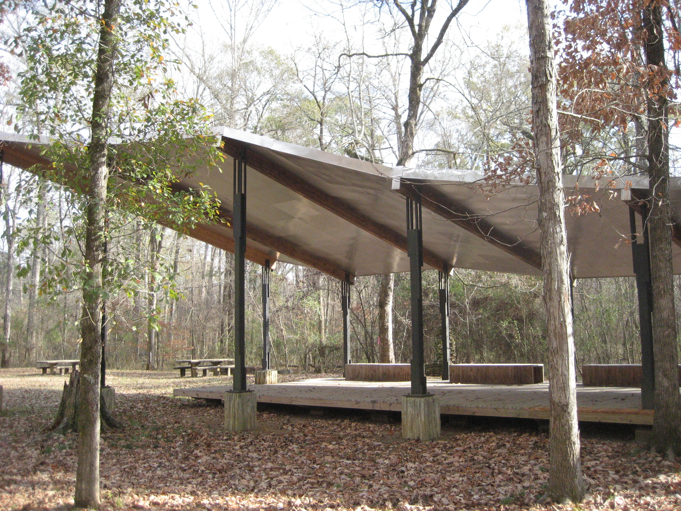 Pavilion — Rural Studio architecture in Alabama.